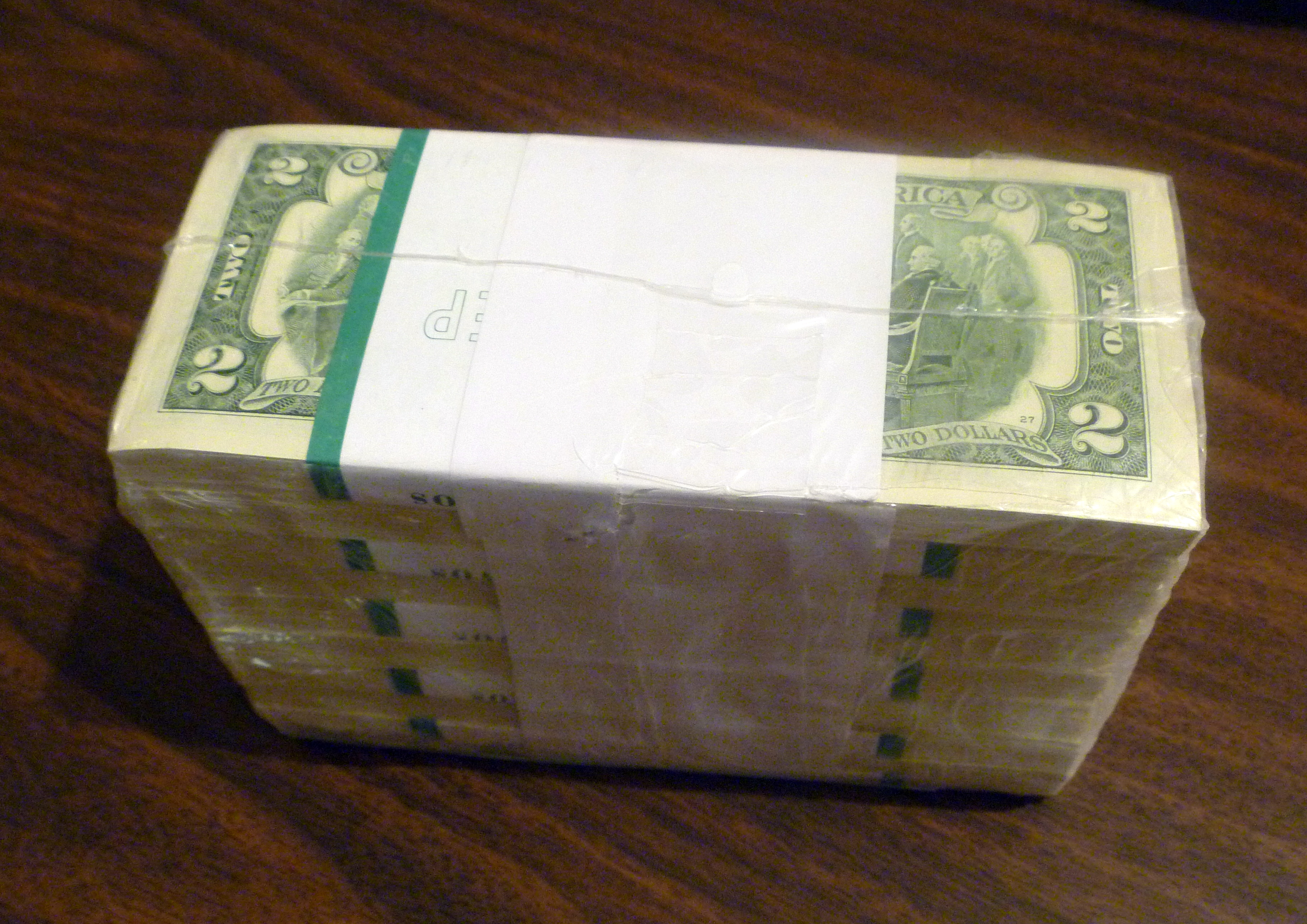 1000 United States two-dollar bills in shrink wrap.